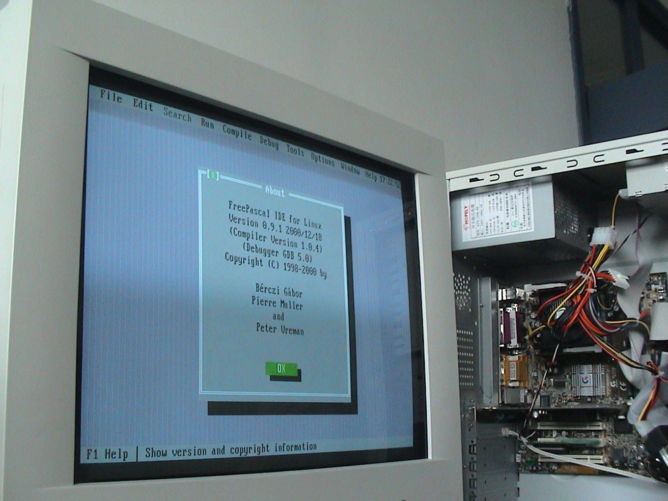 FreePascal IDE The computer is being prepared to be used in 2002 National Olympiad in Informatics.